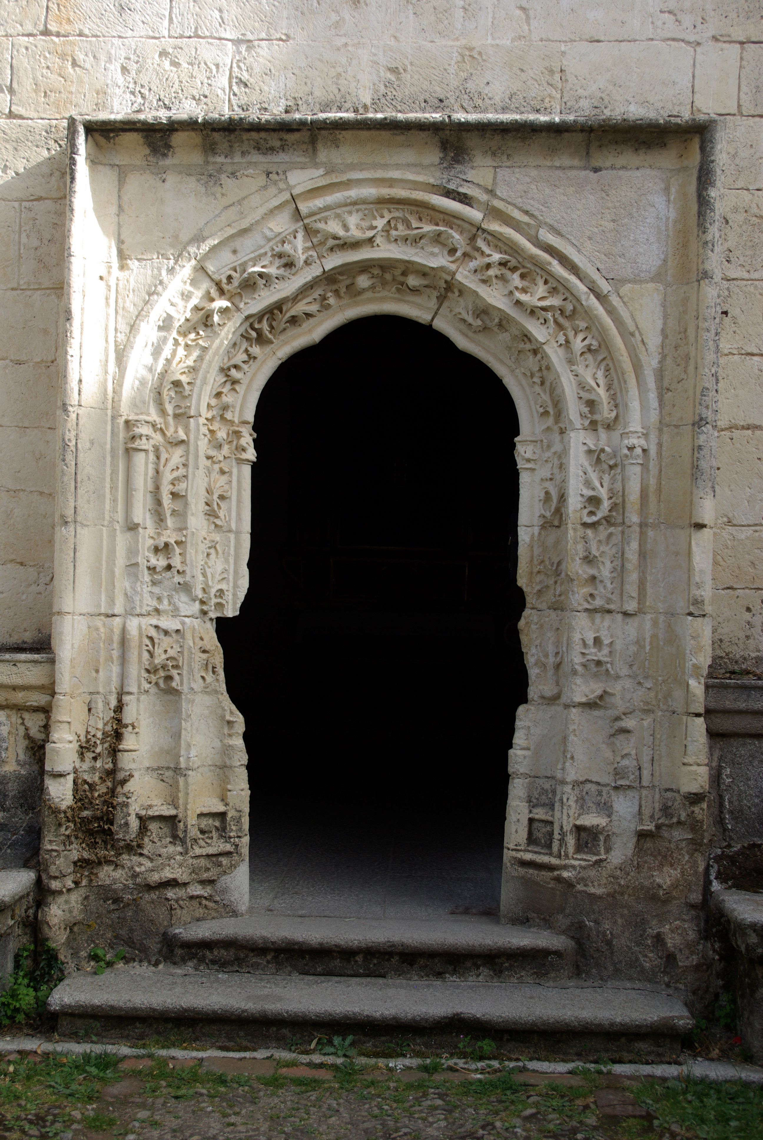 Monastery El Paular, Rascafría (Madrid, Spain)